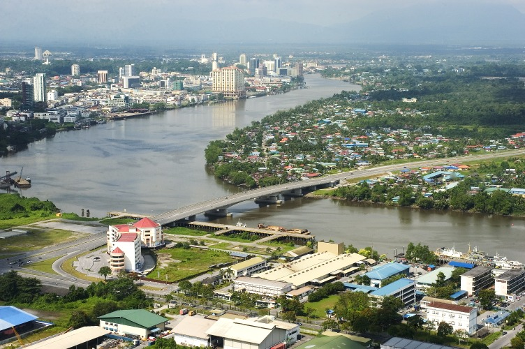 The Tun Salahuddin Bridge. The only tolled expressway in East Malaysia. In the background is Kuching City Centre. Taken from a plane about to land at Kuching International Airport